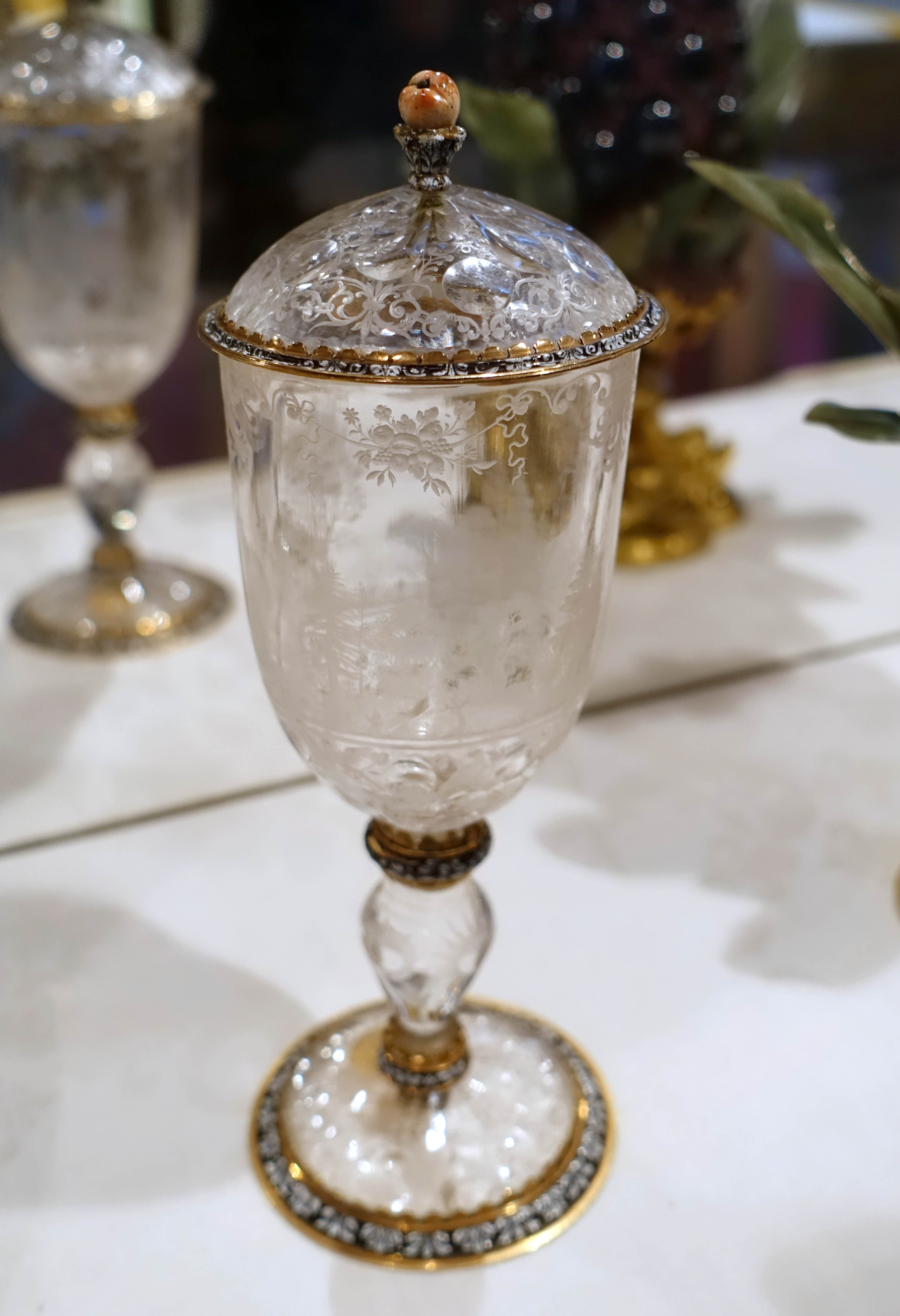 Item in Waddesdon Manor - Buckinghamshire, England.